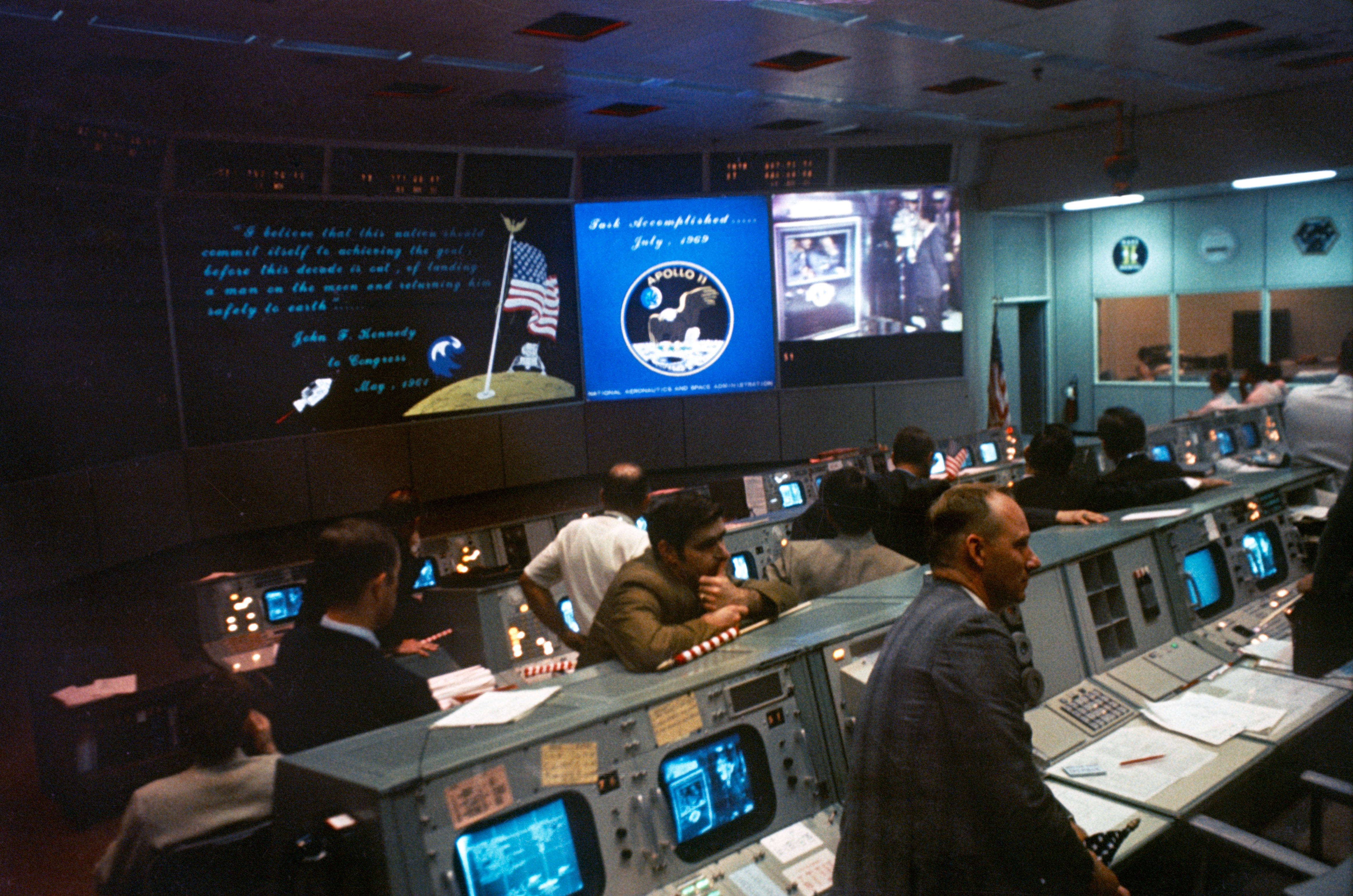 Overall view of the Mission Operations Control Room (MOCR) in the Mission Control Center (MCC), Building 30, Manned Spacecraft Center (MSC), at the conclusion of the Apollo 11 lunar landing mission. The television monitor shows President Richard M. Nixon greeting the Apollo 11 astronauts aboard the USS Hornet in the Pacific recovery area. Astronauts Neil A. Armstrong, Michael Collins, and Edwin E. Aldrin Jr. are inside the Mobile Quarantine Facility (MQF).